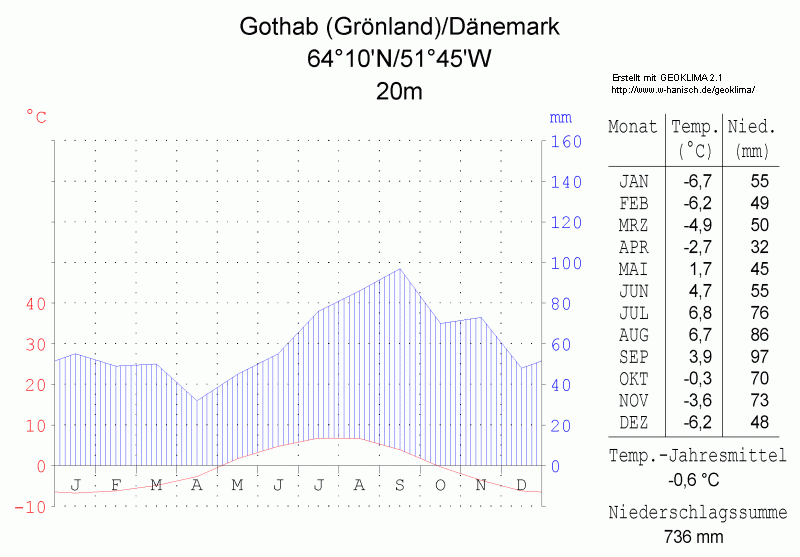 climate chart in the format by Walther and Lieth, metric, °Celsisus and millimeters, made with Geoklima 2.1